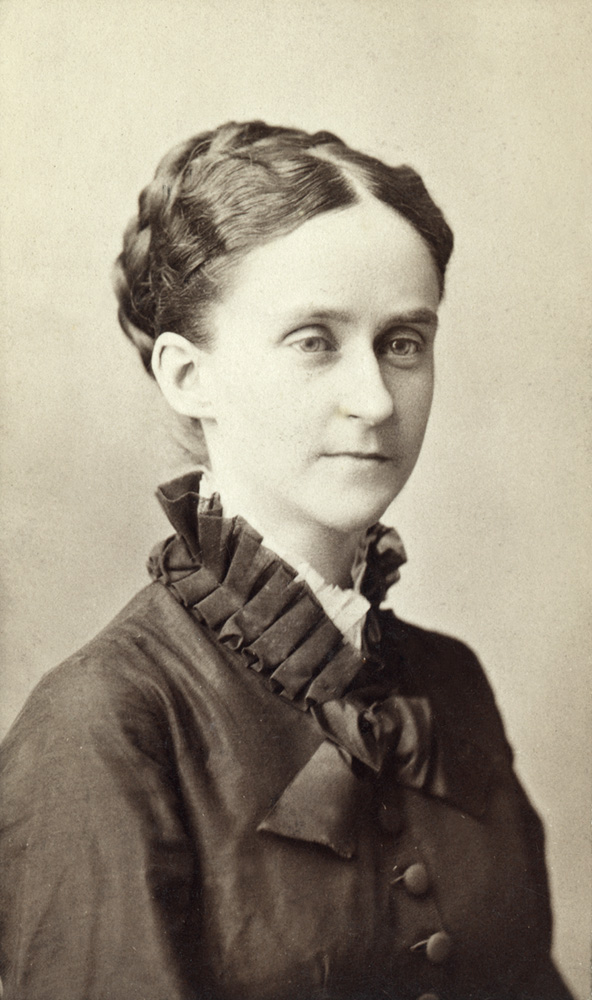 University of Chicago Photographic Archive, apf1-05315, Special Collections Research Center, University of Chicago Library. Freely usable for educational/scholarly purposes with credit line.